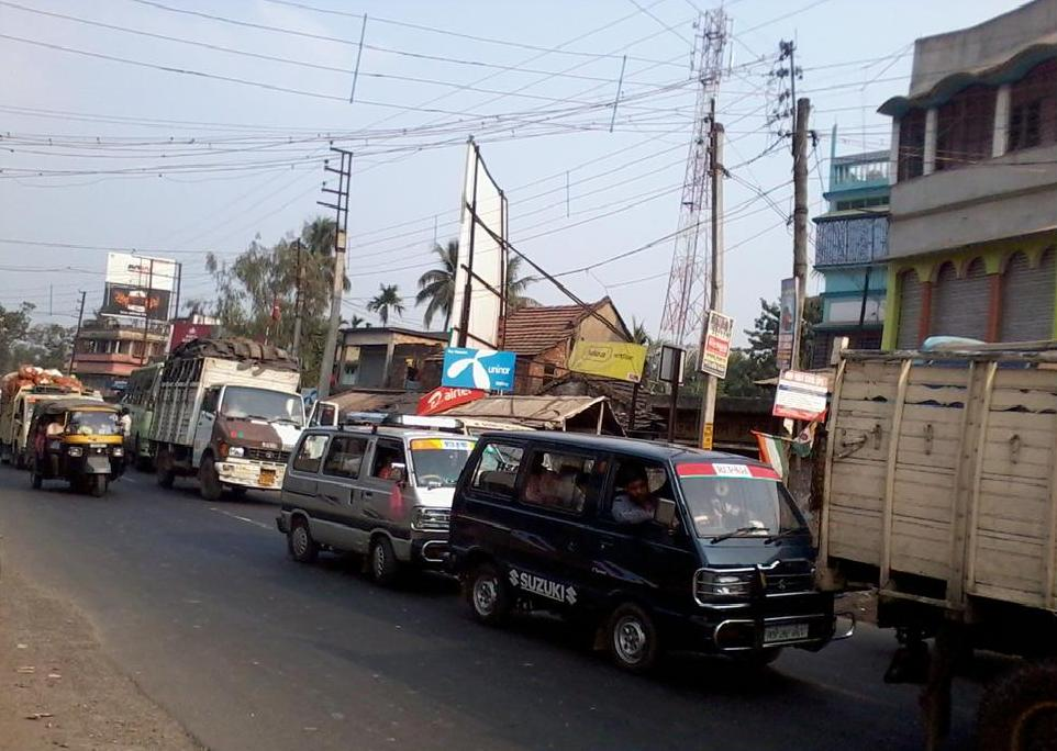 Jessore Road(NH-35), Bamangachhi Chowmata